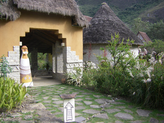 Chachapoyas Museum in Leymebamba, august 2011